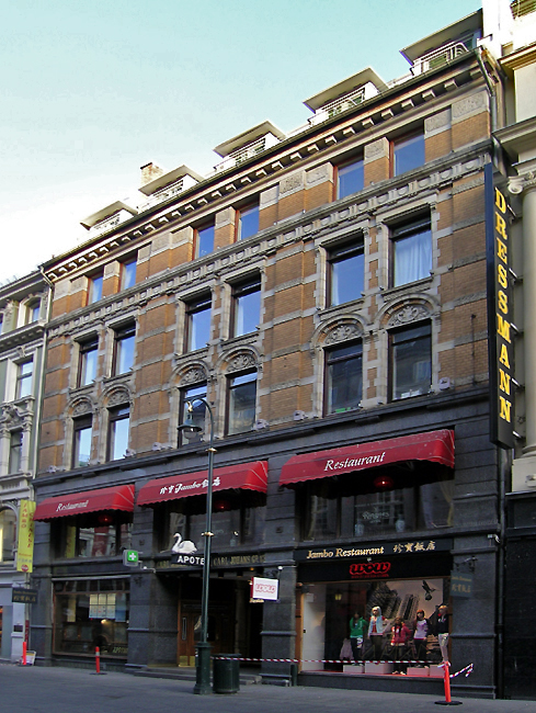 Svaneapoteket, Karl Johans gate 13, Oslo. Built 1896. Architects: Ove Ekman and Einar Smith. Protected by law 1983.